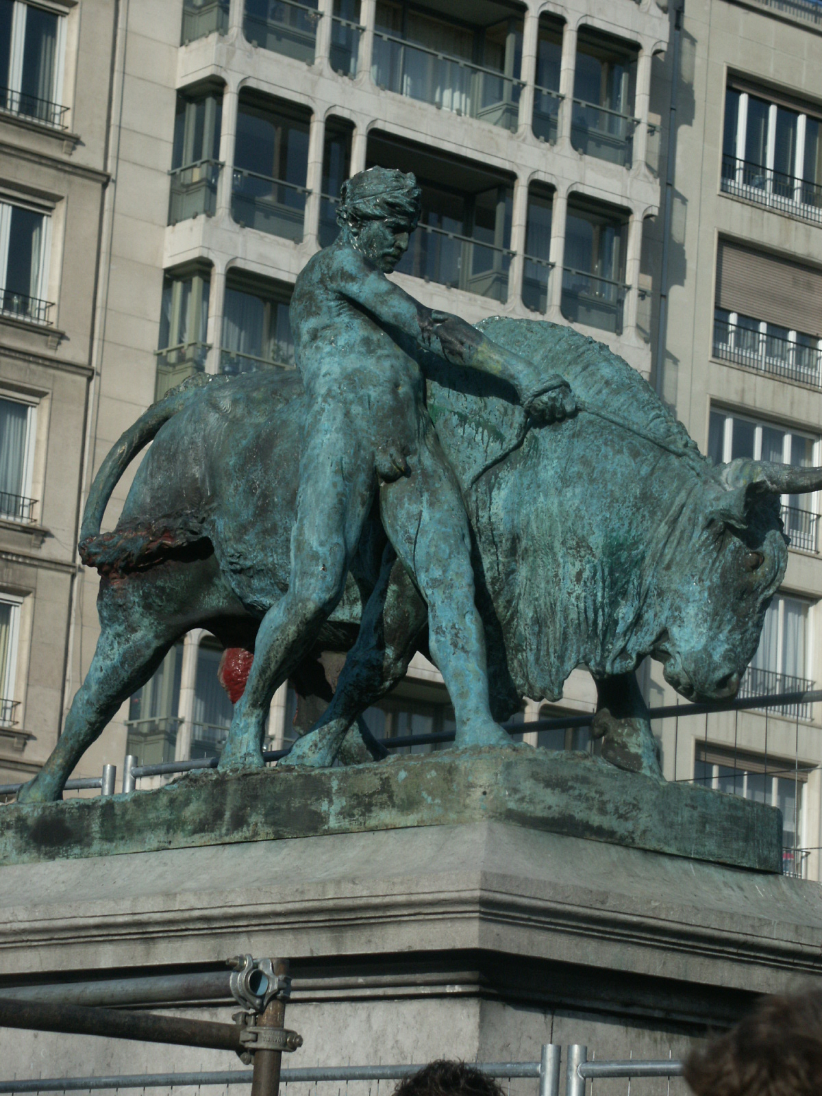 Saint Torè. Sculptor: Léon Mignon. Statue from 1880, located in the Parc d'Avroy, Liège